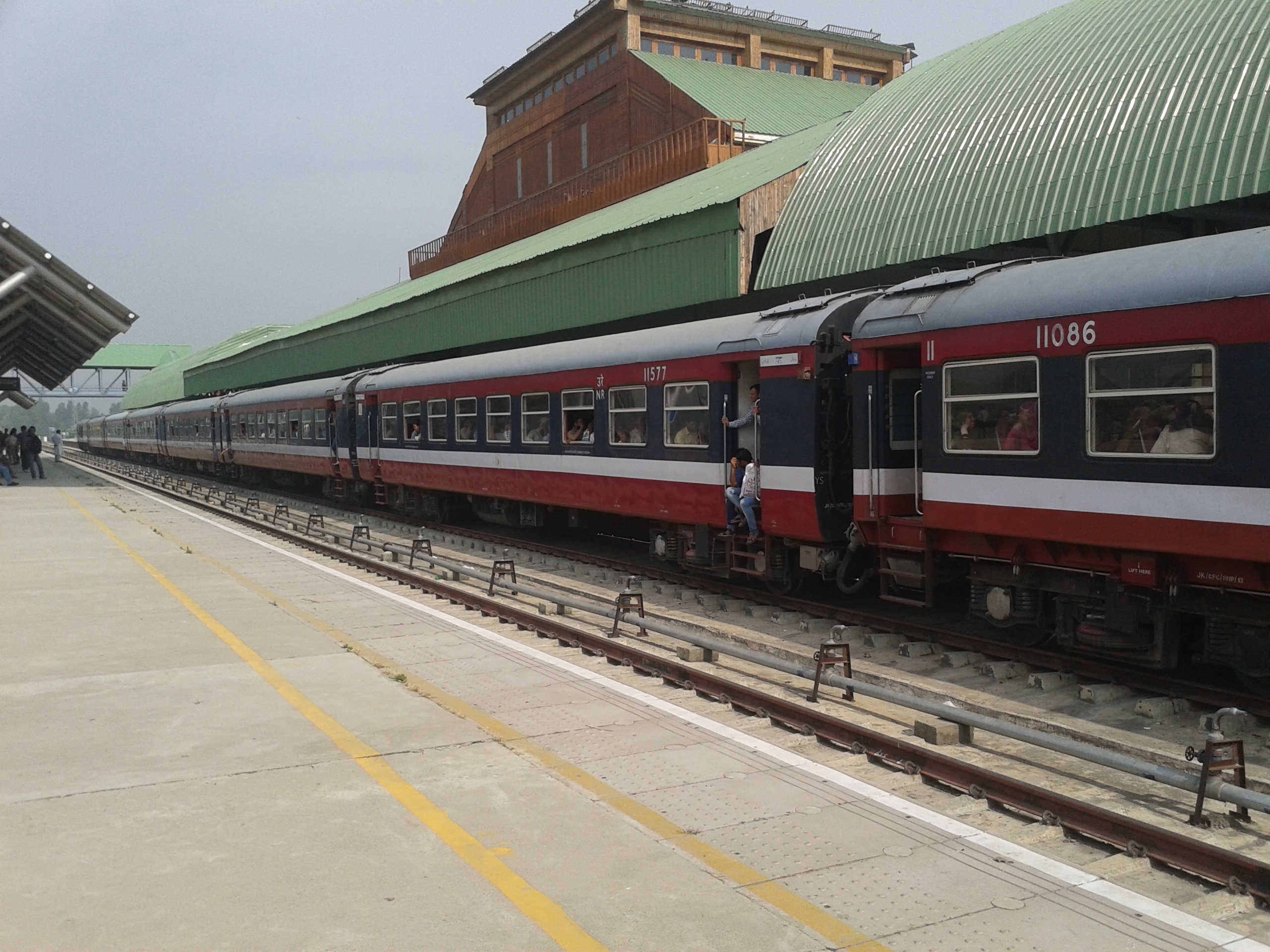 Train in Kashmir